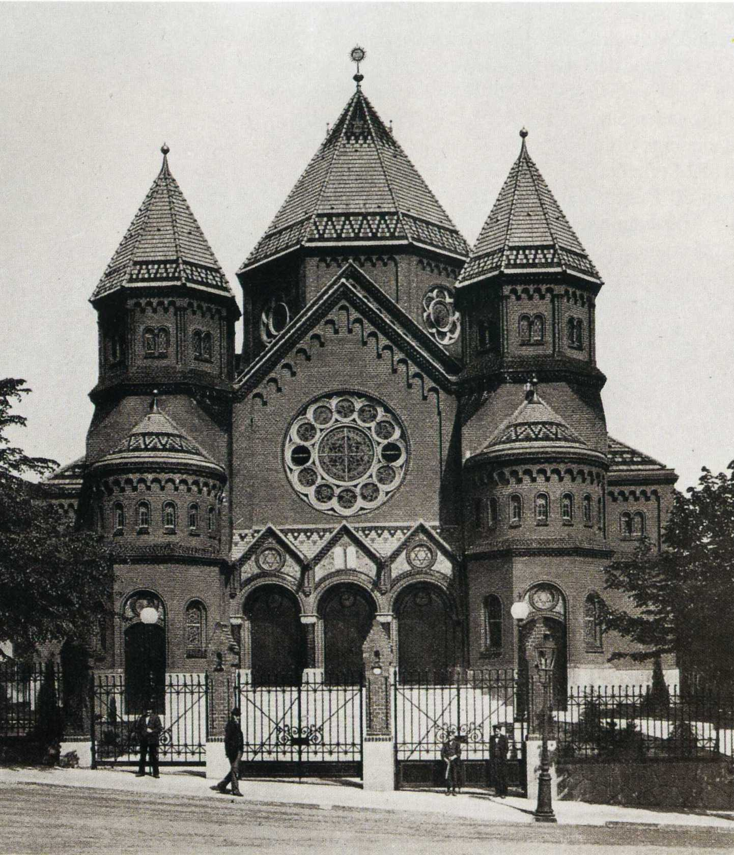 Synagogue at Stephanplatz, Chemnitz, Saxony, Germany; built 1897-1899, design by architect Wenzel Bürger, destroyed 1938